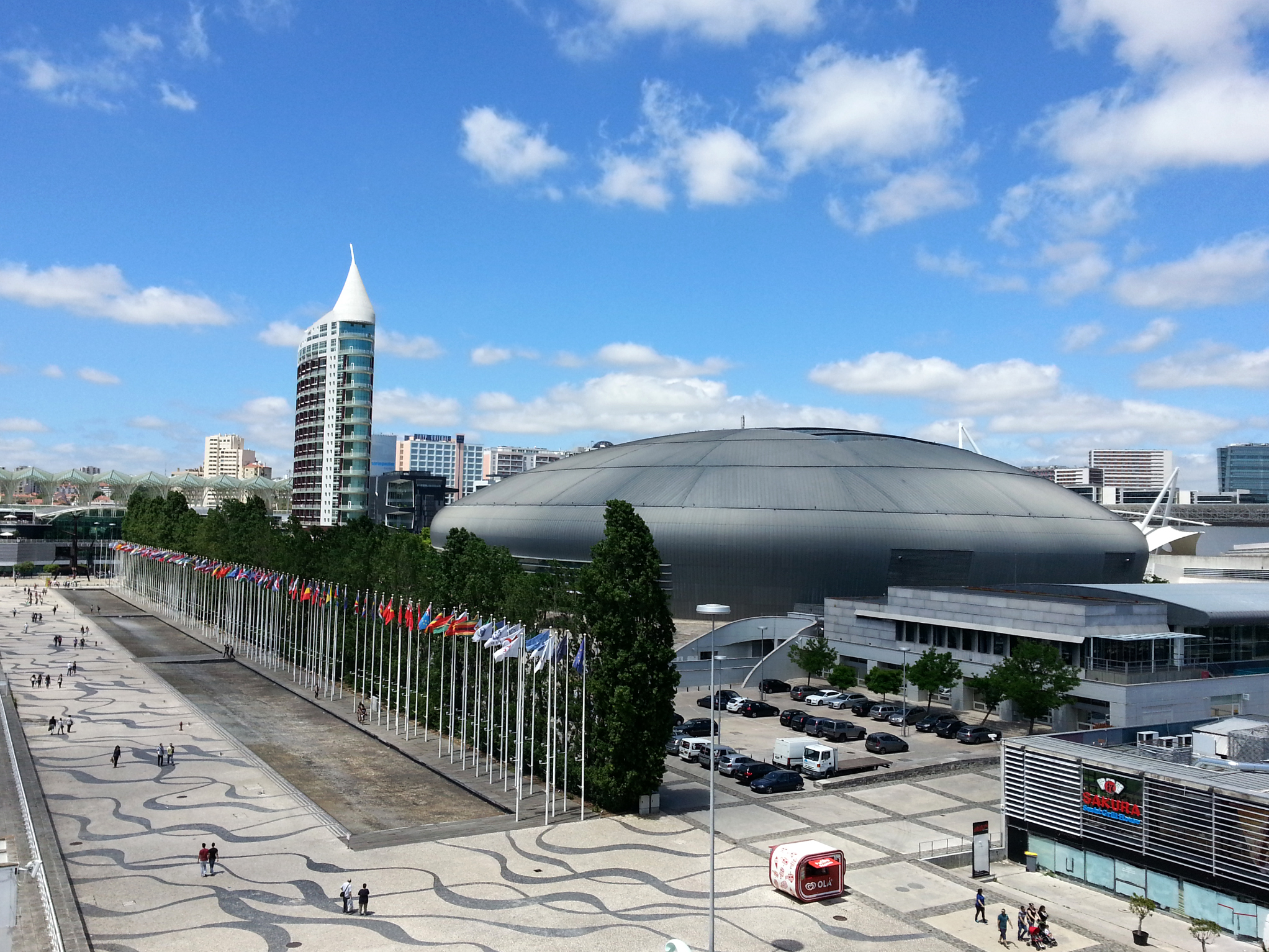 Pavilhão Atlântico Meo Arena photography by Hélder Palma.